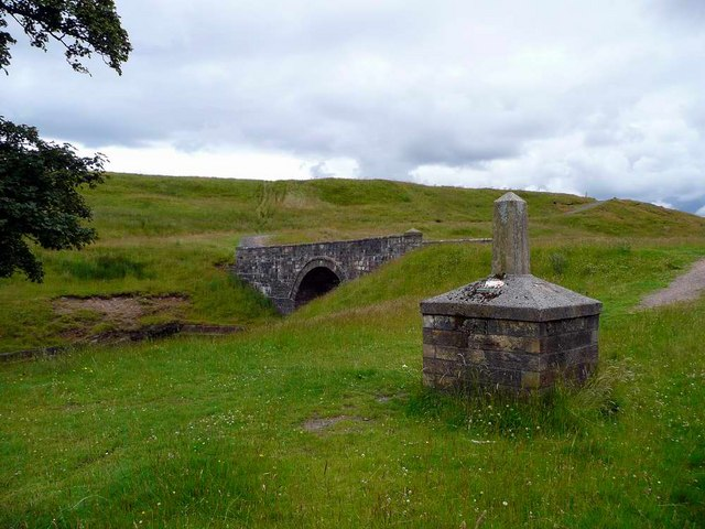 Tibbie's Brig and memorial The memorial is to Tibbie Pagan, poetess, who is popularly credited with writing "Ca' the yowes tae the knowes", later taken up by Robert Burns and turned into one of his most popular songs.